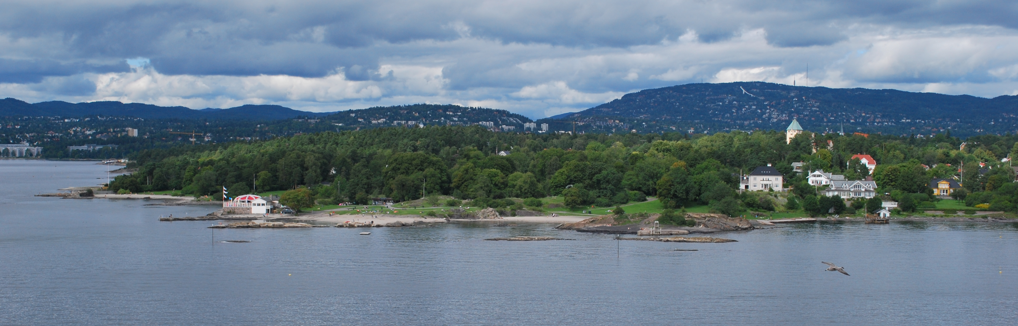 The beach Huk, seen from the Fjord